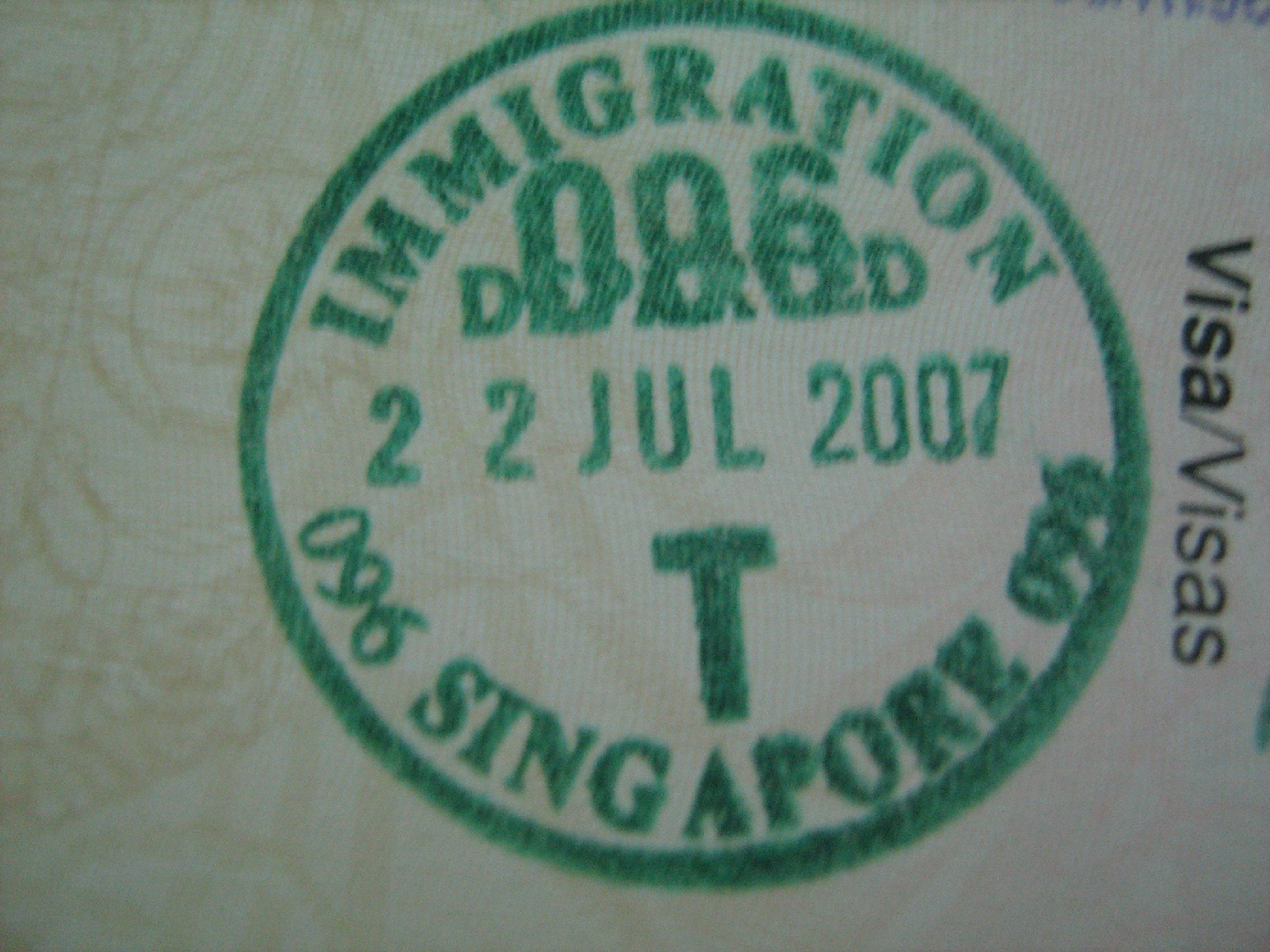 A Singaporean exit stamp in a Malaysian passport. The T shows that the holder exited Singapore via the Tuas Checkpoint.